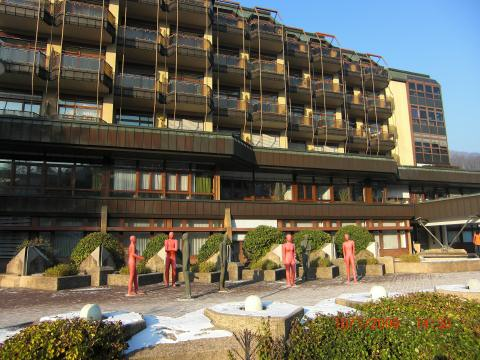 View of the ACURA Rheumazentrum Baden-Baden 2008